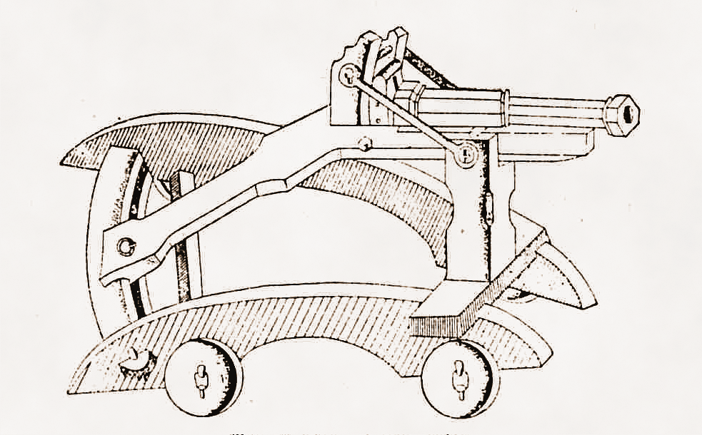 Medieval siege gun, XV century